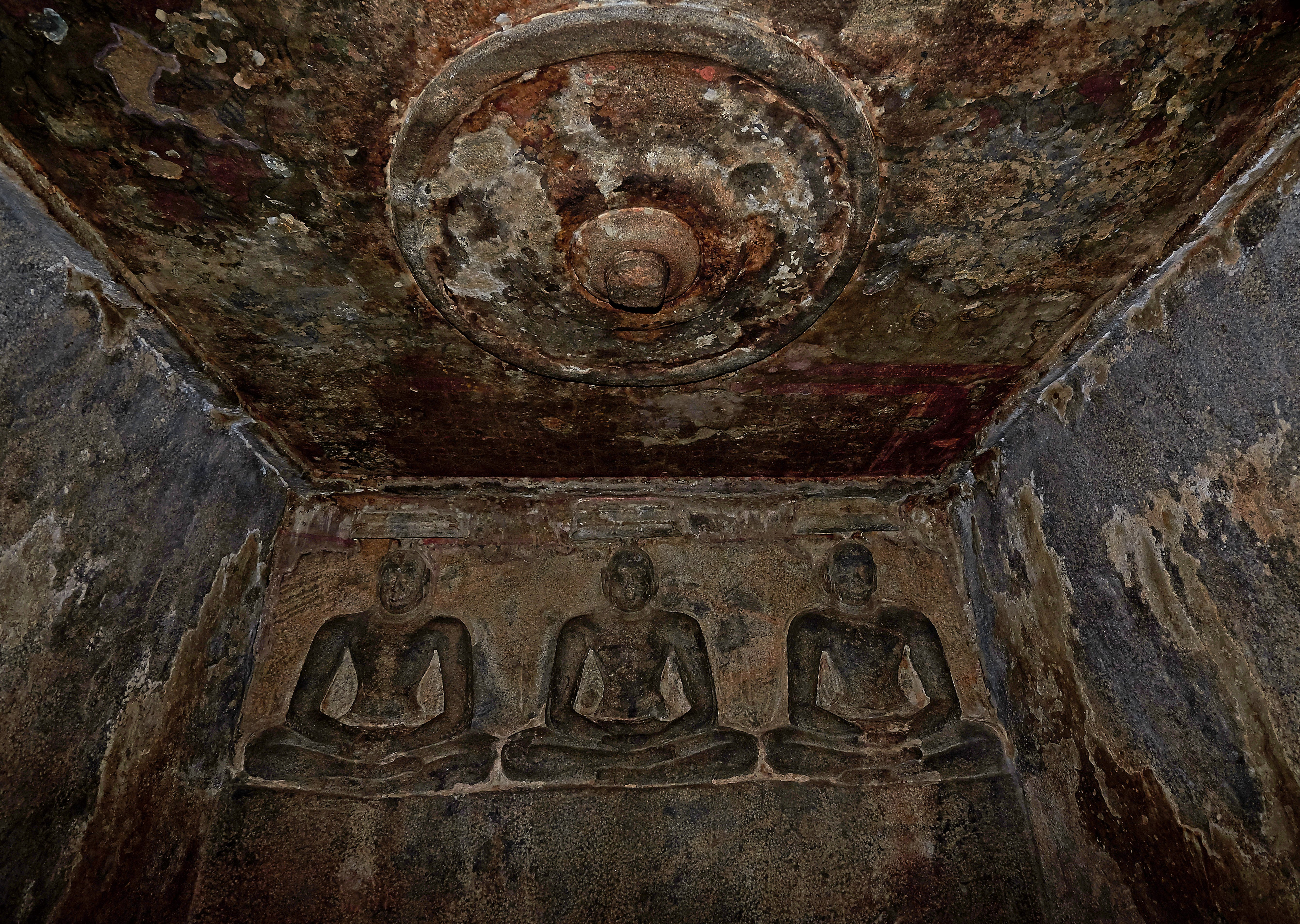 Sittanavasal Cave (also, Arivar Koil) is a 2nd-century Jain complex of caves in Sittanavasal village in Pudukottai district of Tamil Nadu, India. Its name is a distorted form of Sit-tan-na-va-yil, a Tamil word which means "the abode of great saints" (Tamil: சித்தன்னவாசல்). The monument is a rock-cut monastery or temple. Created by Jains, it is called the Arivar Koil, and is a rock cut cave temple of the Arihants. It contains remnants of notable frescoes from the 7th century. The murals have been painted with vegetable and mineral dyes in black, green, yellow, orange, blue, and white. Paintings have been created by applying colours over a thin wet surface of lime plaster. Ancient caves such as Gol Gumbaz, Talagirishvara temple and this one are relatively unappreciated, while an argument like medieval period receive much attention does not stand true to itself DESCRIPTIOB BY Wikipedia